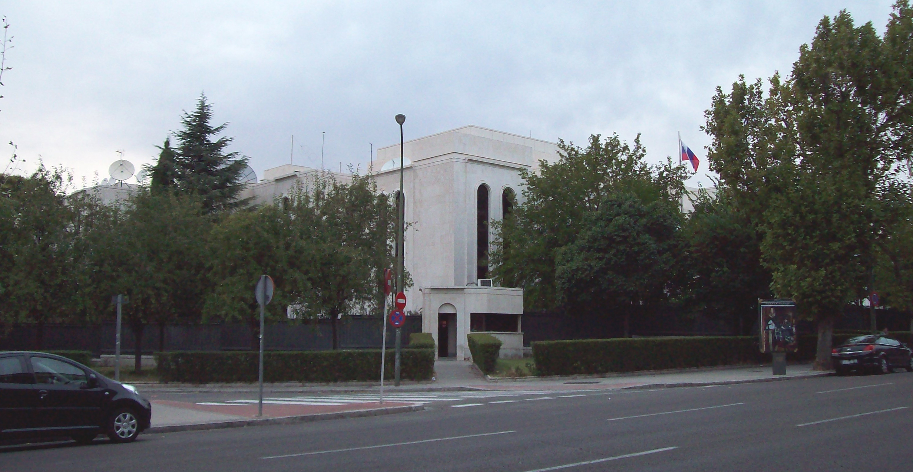 View of the Russian Embassy in Madrid (Spain) from the south-east angle.